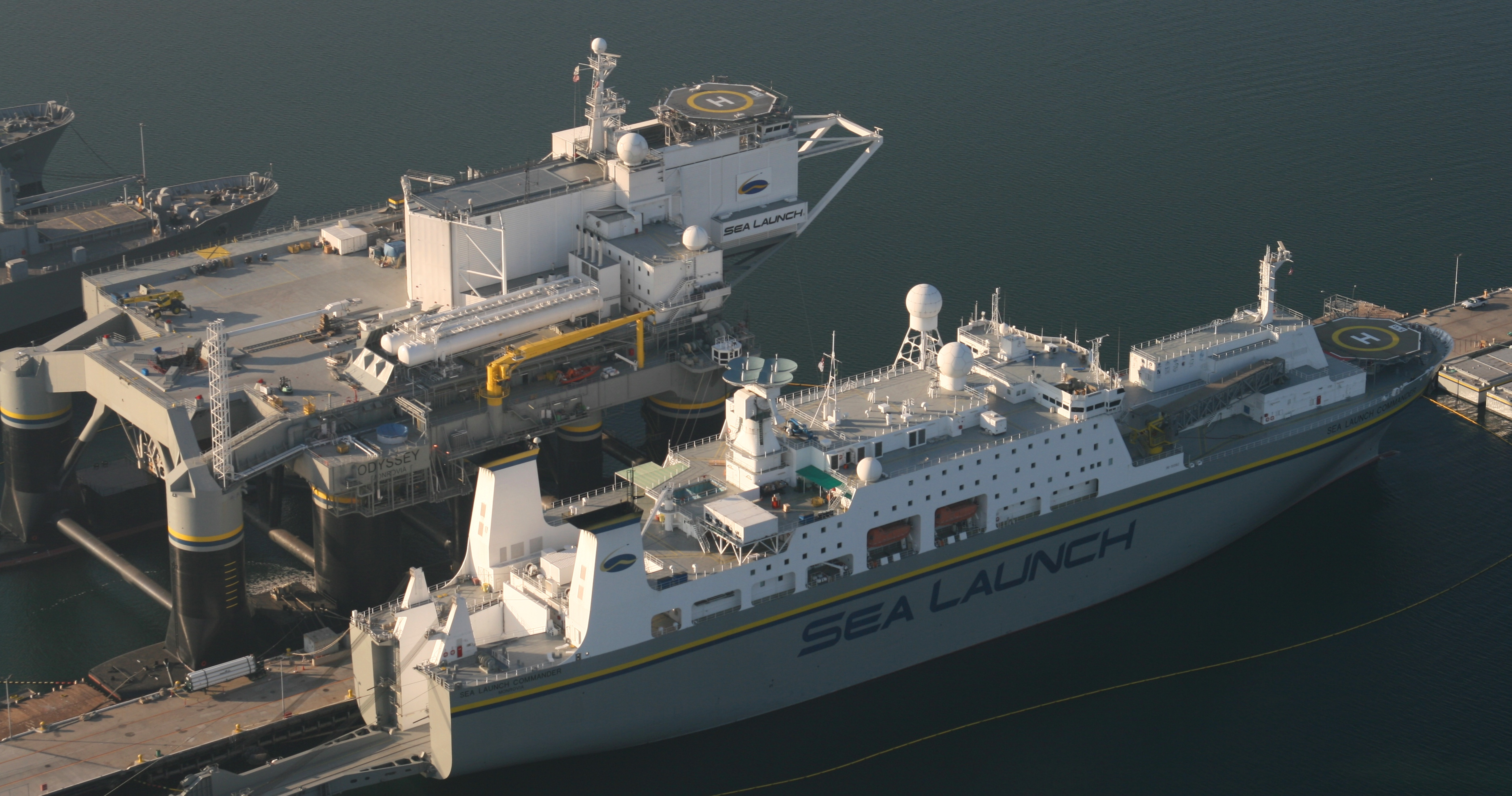 A nice chance to see the Sea Launch Pad and Command Vessel. This is post repair from their last accident. check out